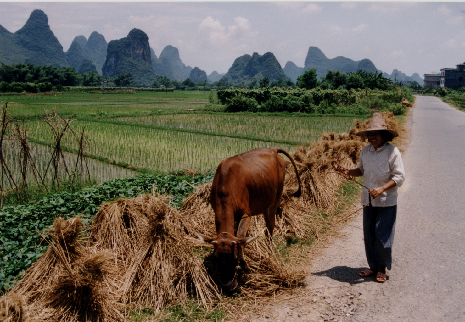 China Rice field with farmer Photographer: Markus Raab